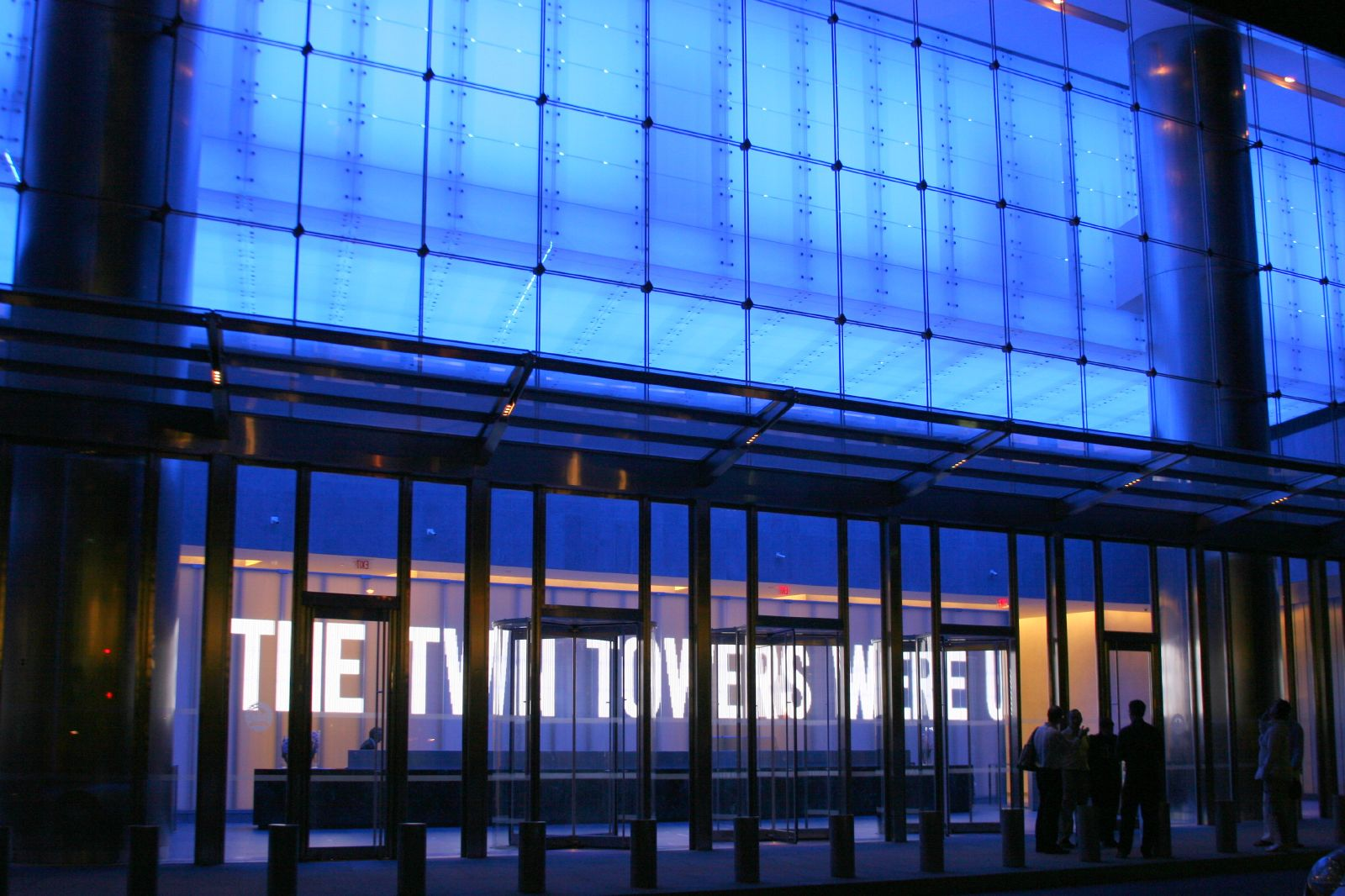 7 World Trade Center lobby and lighting at night